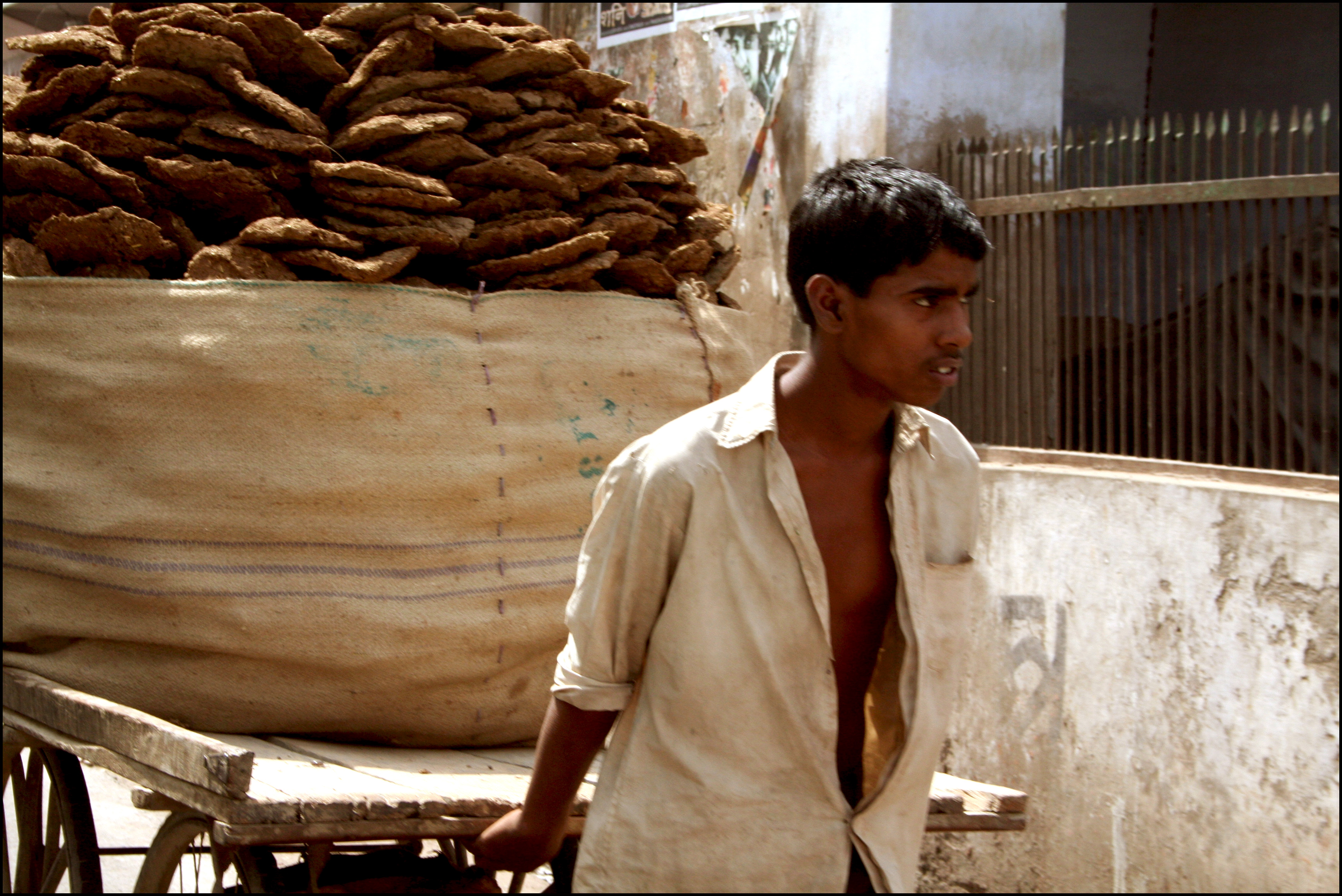 An Indian boy pulling a chart full of cow dung cakes.